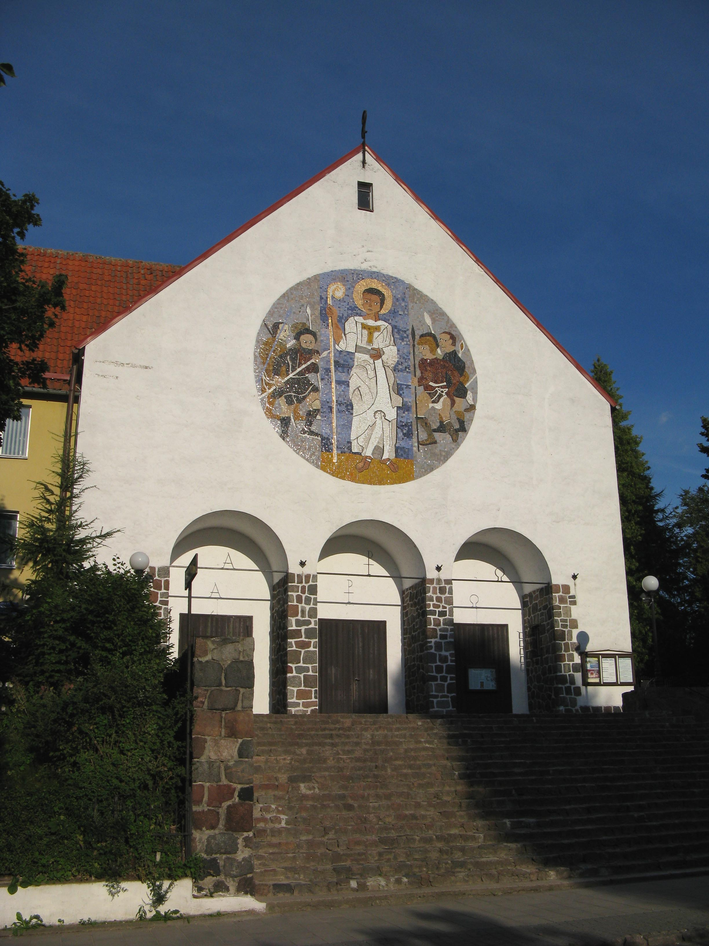 Bruno of Querfurt Sanctuary in Giżycko.